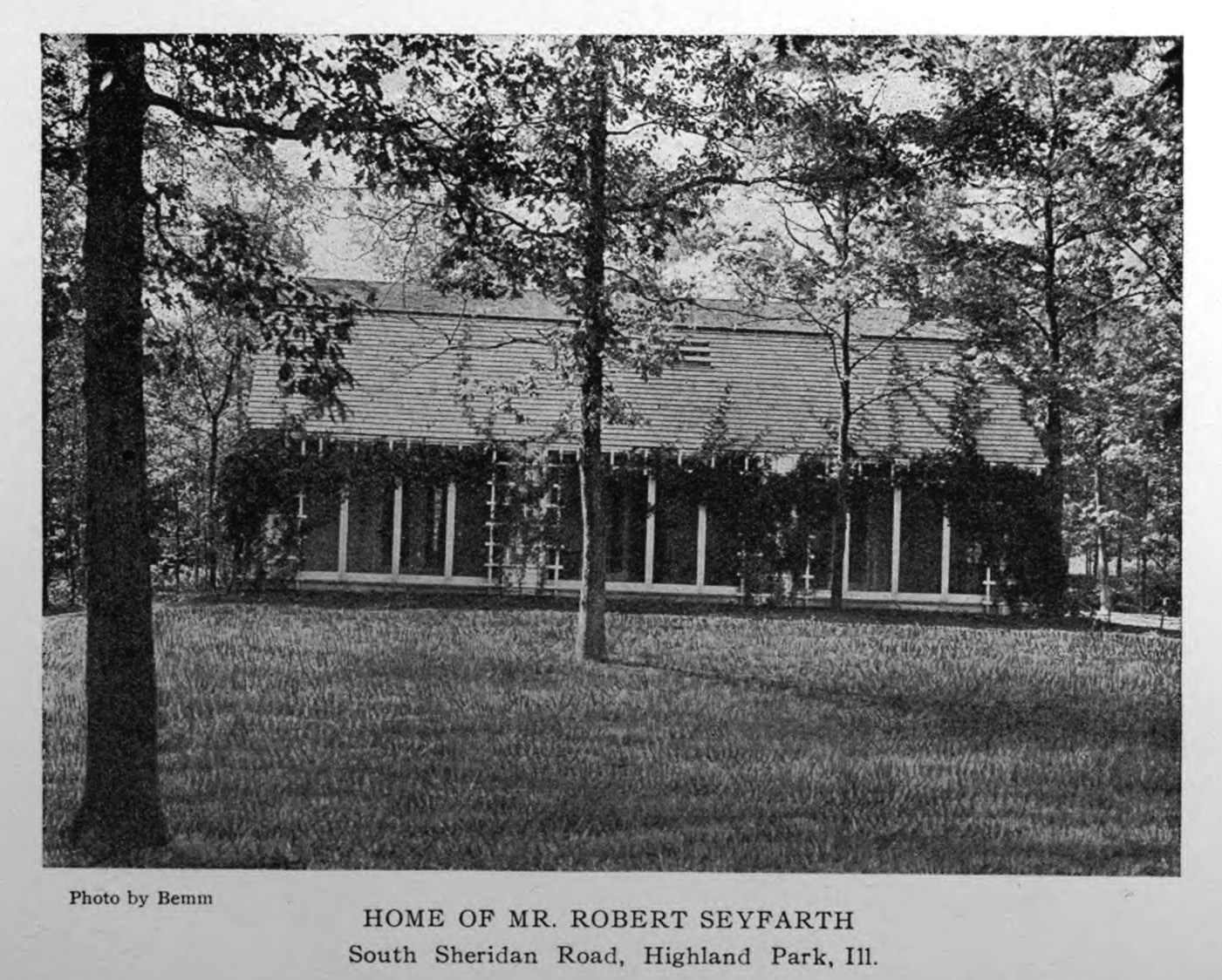 Image of the second Robert Seyfarth house, Highland Park, IL. Robert Seyfarth, architect c. 1910